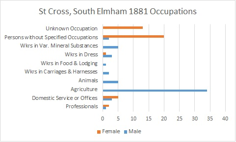 A graph showing the occupational data for the parish of St Cross, South Elmham in 1881, split between genders